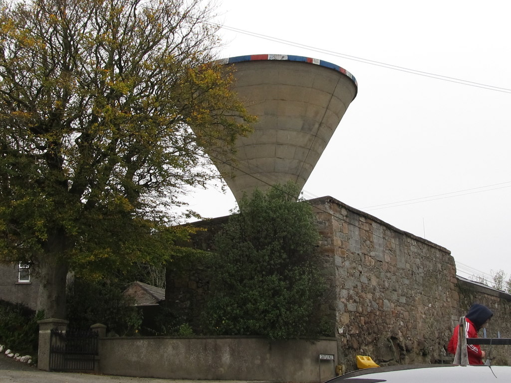 The surviving wall of the Magennis Castle of 1611This castle was destroyed by the planters in 1641. The site of the castle is now occupied by the water tower. The upper rim has been painted red white and blue by the descendants of the planters. The location was also the birth place of Andrew George Scott - Captain Moonlight - a land owner's son, lay preacher and notorious Australian bush ranger who was finally hung in 1888